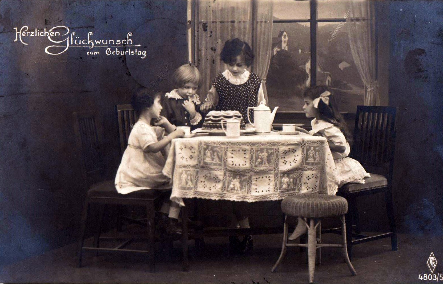 Girls with birthday cake (torte). Postcard from 1920. Publisher: Paul Fink. Berlin.